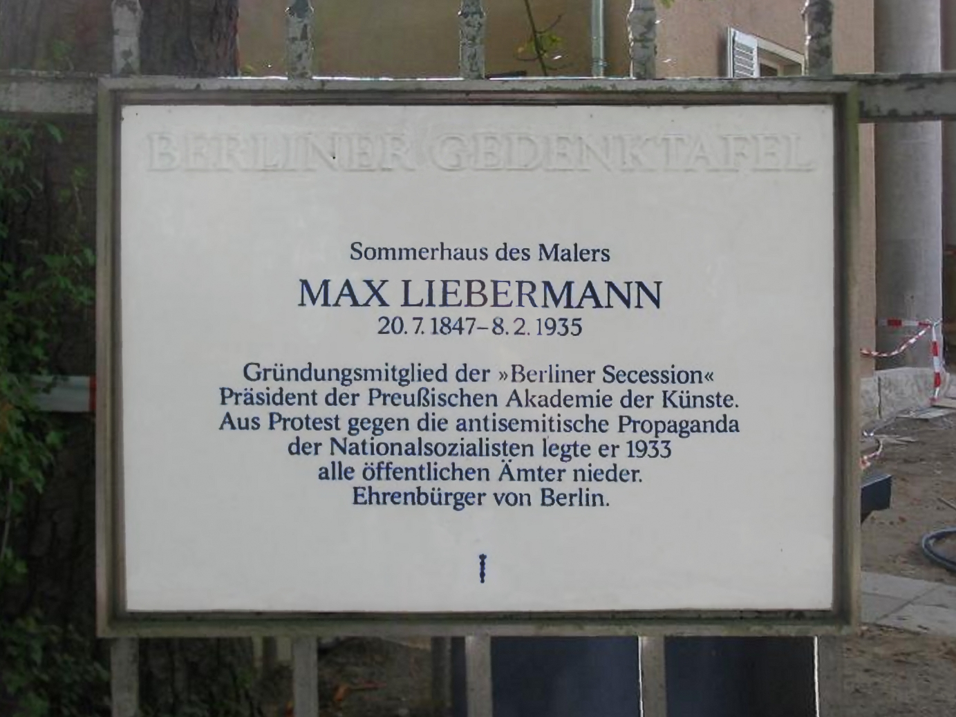 Liebermann-Villa at Wannsee (lake), built in 1910. Summer-home from the german painter Max Liebermann in Berlin-Wannsee. Restored and opened as Museum in 2006. Berlin plaque.